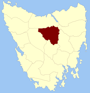 Location of the land district (formerly county) within Tasmania.